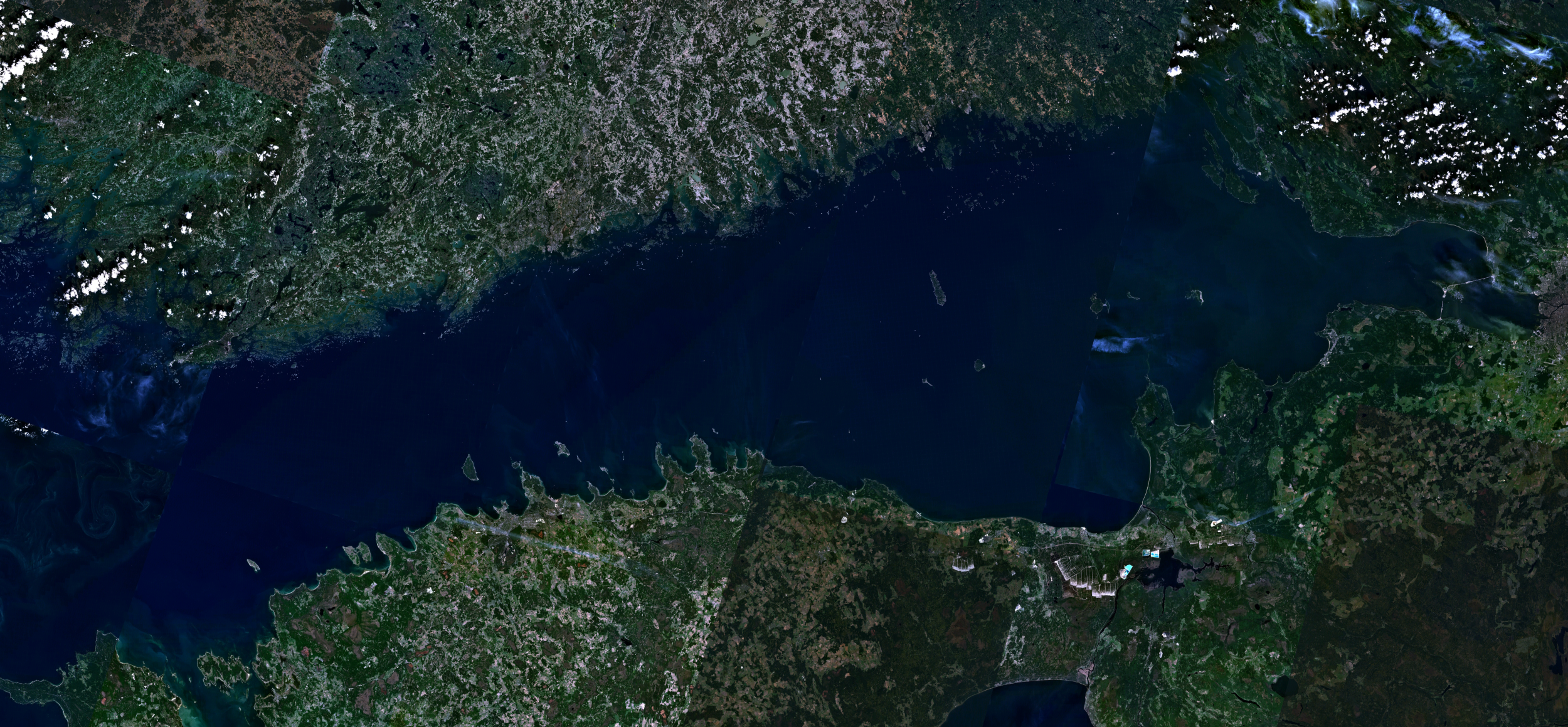 Visible colour satellite image of Gulf of Finland.